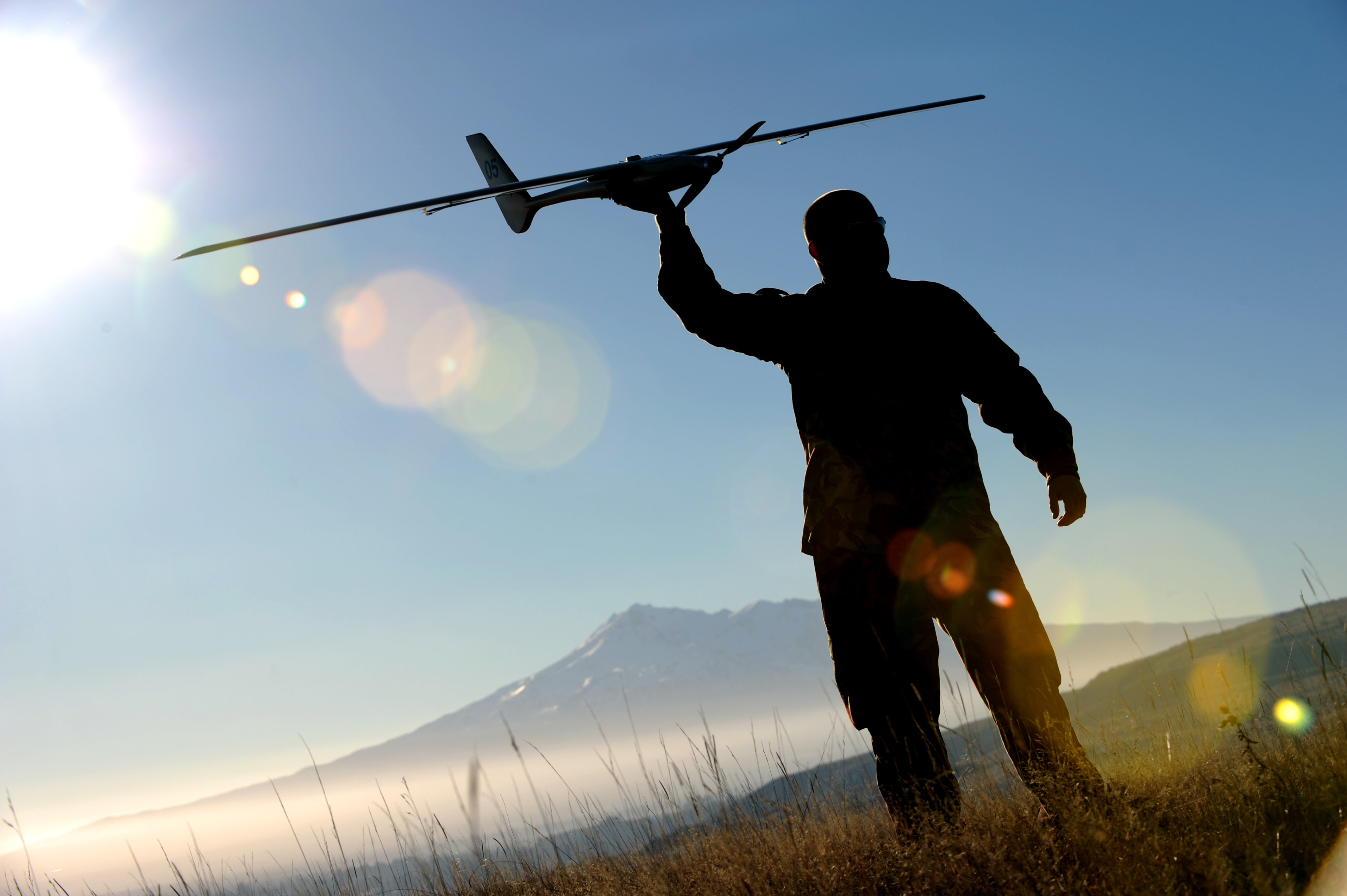 NZ Army's 16th Field Regiment operate the UAV 'KAHU' out of Waiouru Army Training Area during field tests. Gunner Jordan Barratt prepares KAHU prior to Launch. OH 08-0393-38